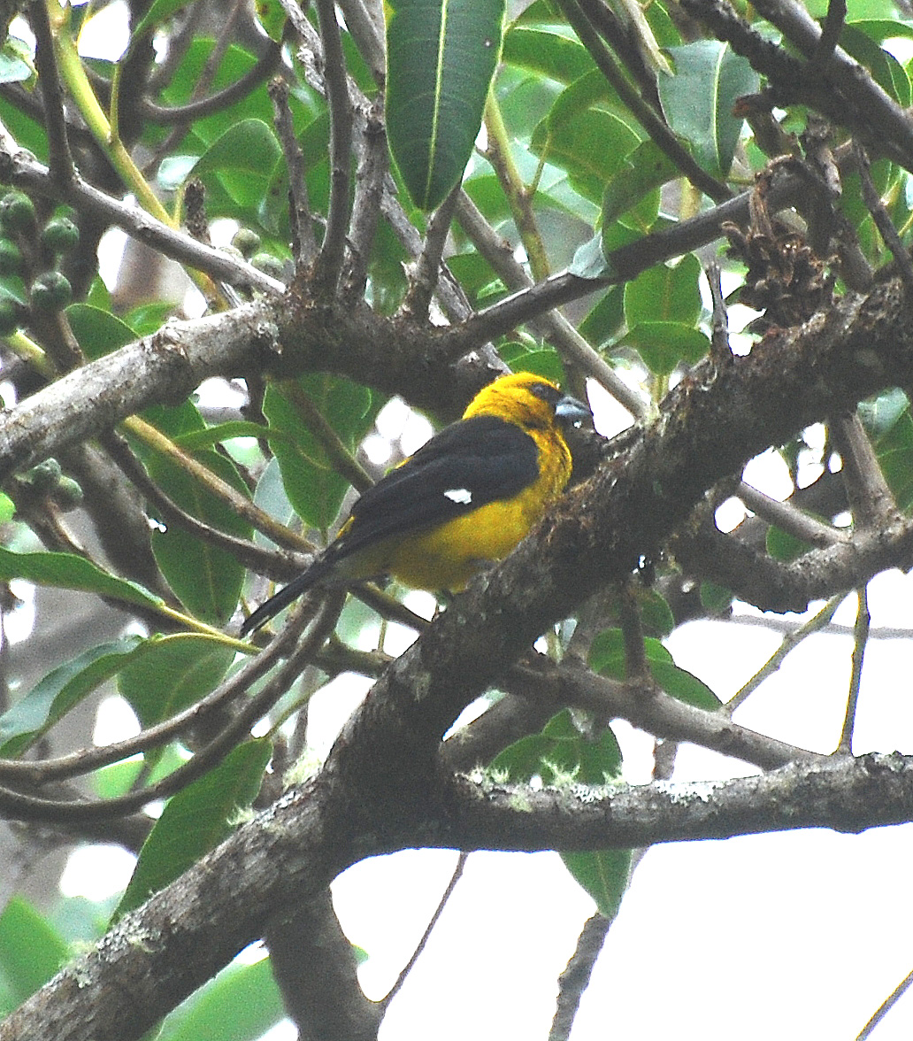 Black-thighed Grosbeak on the forest hike at Savegre Lodge, Costa Rica, 080227. Pheucticus tibialis.